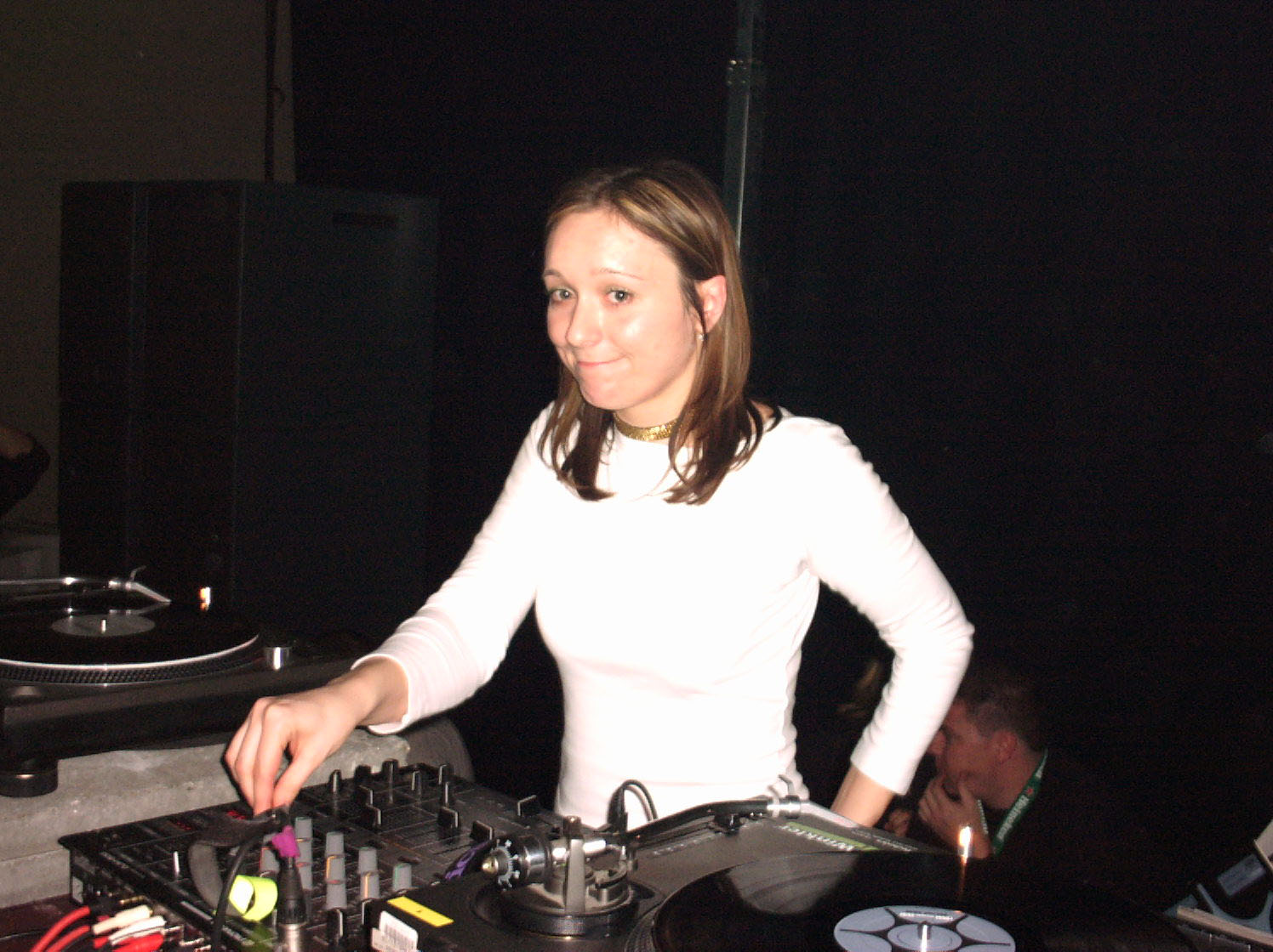 Tatana Sterba alias Tatana at the Silence on 2002-03-03